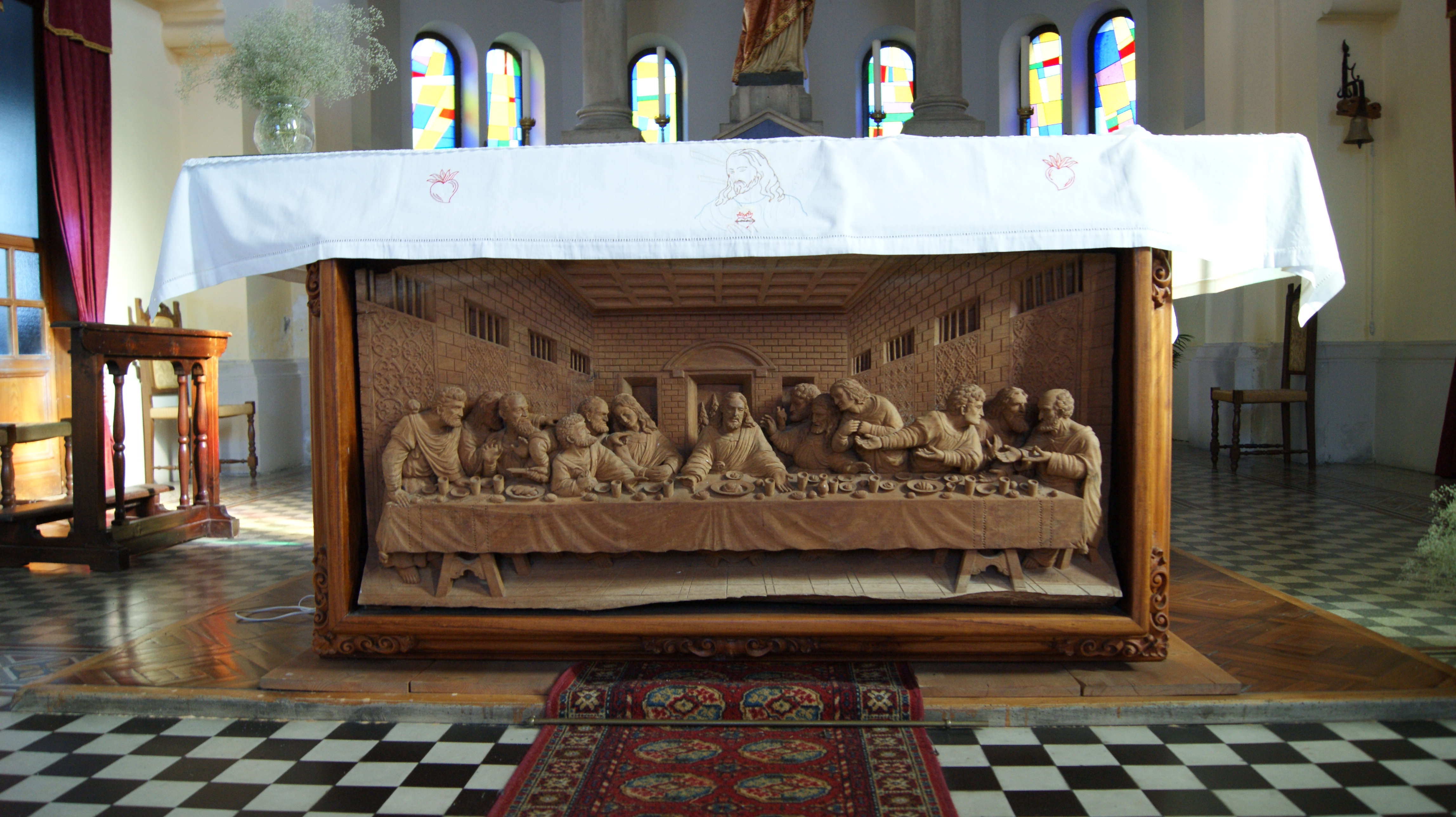 Chiesa del Sacro Cuore (Church of the Sacred Heart) in Tirano. Altar.